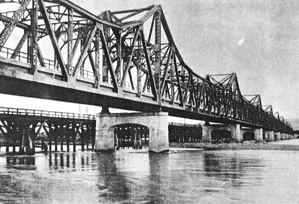 Chōsei Bridge (third) has been completed in 1937. Old bridge is seen over new bridge.